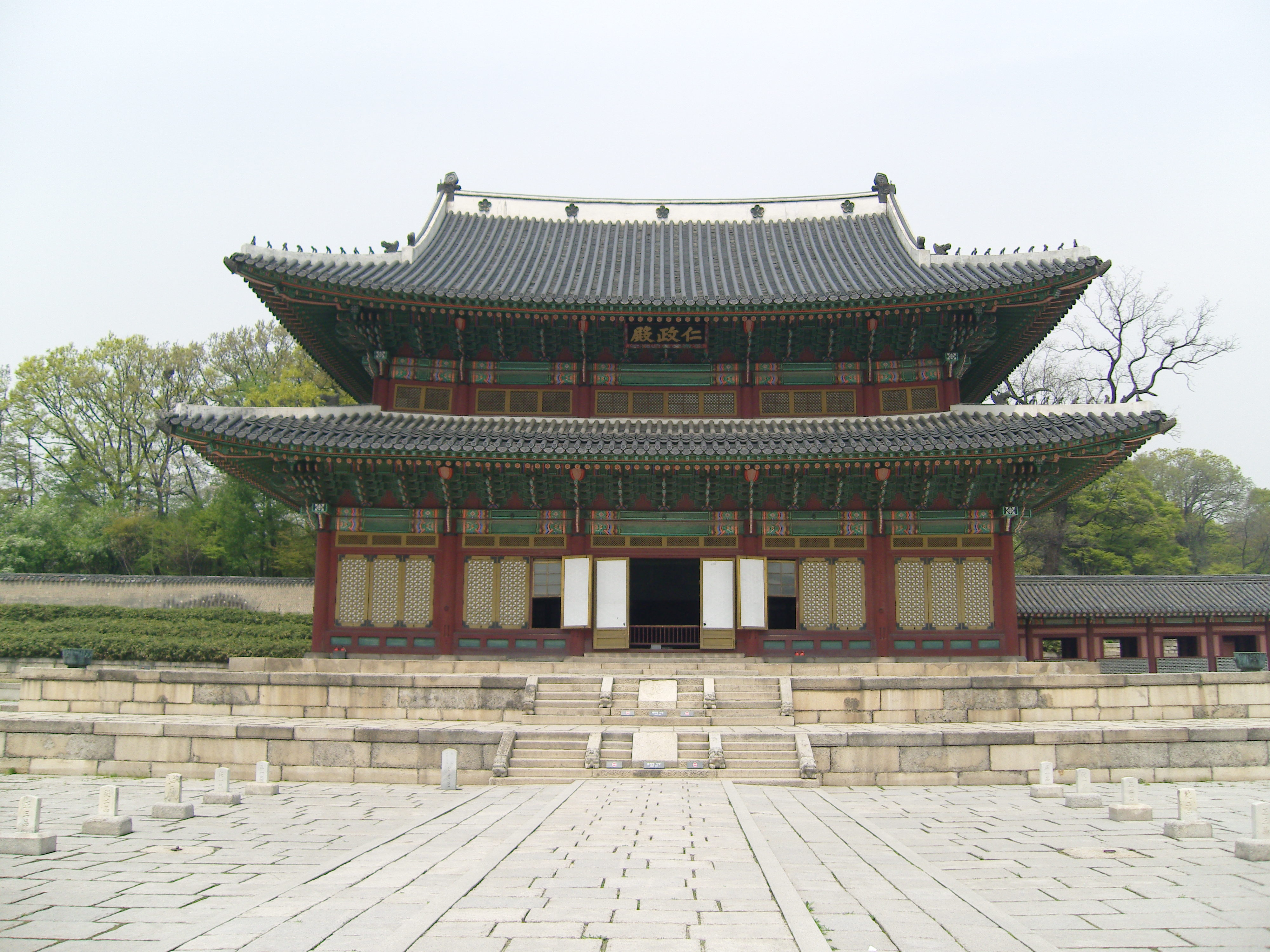 A view of Changdeokgung in the neighborhood of Waryong-dong, Jongno-gu, Seoul, South Korea